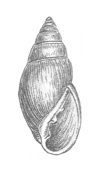 Myosotella myosotis - Pulmonate marine amphibic snail species